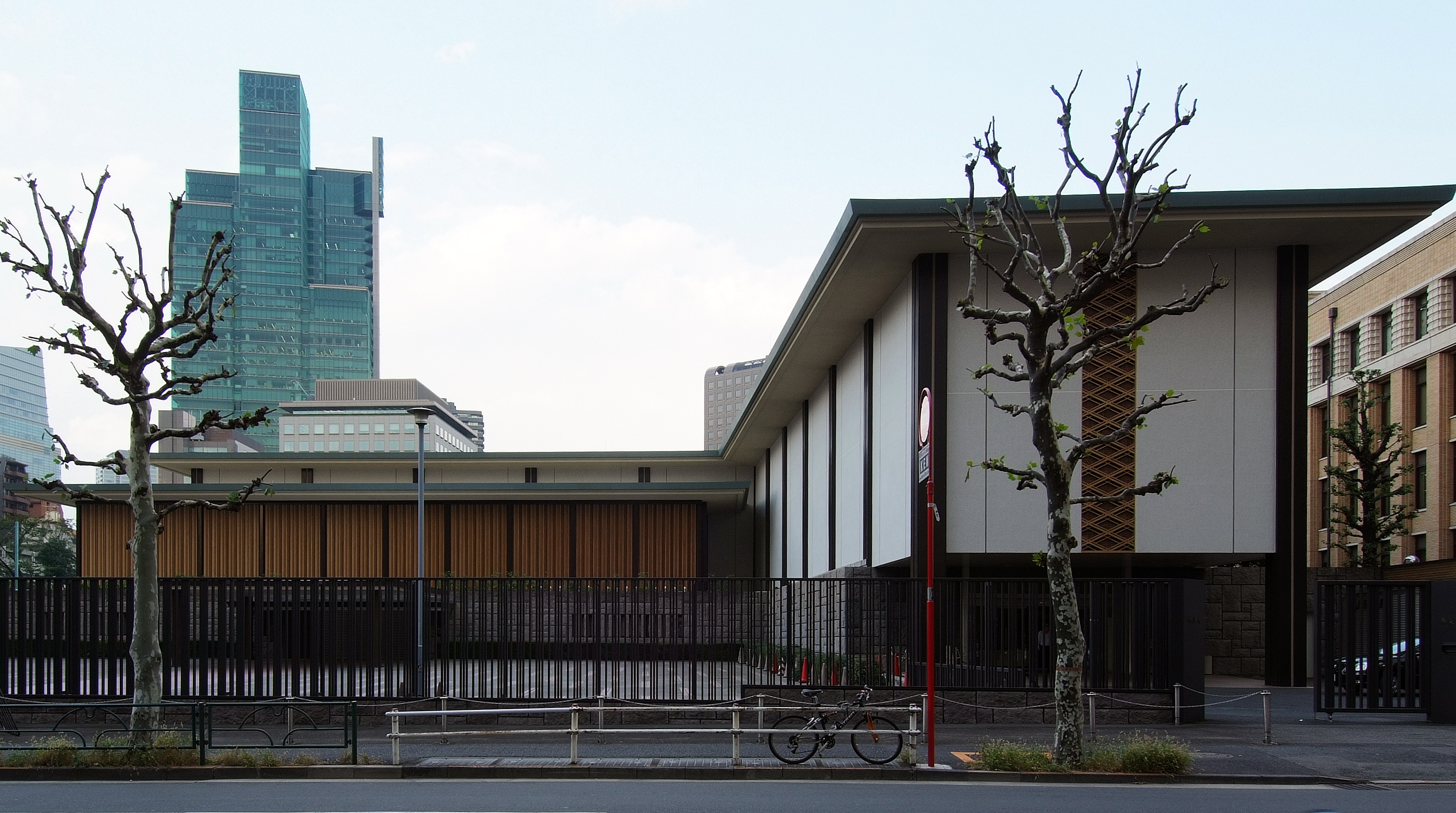 The Iikura Guesthouse of Ministry of Foreign Affairs (Japan), at Roppongi Tokyo Japan, design by Isoya Yoshida in 1972. Sengokuyama Tower not visible as it was not built yet.